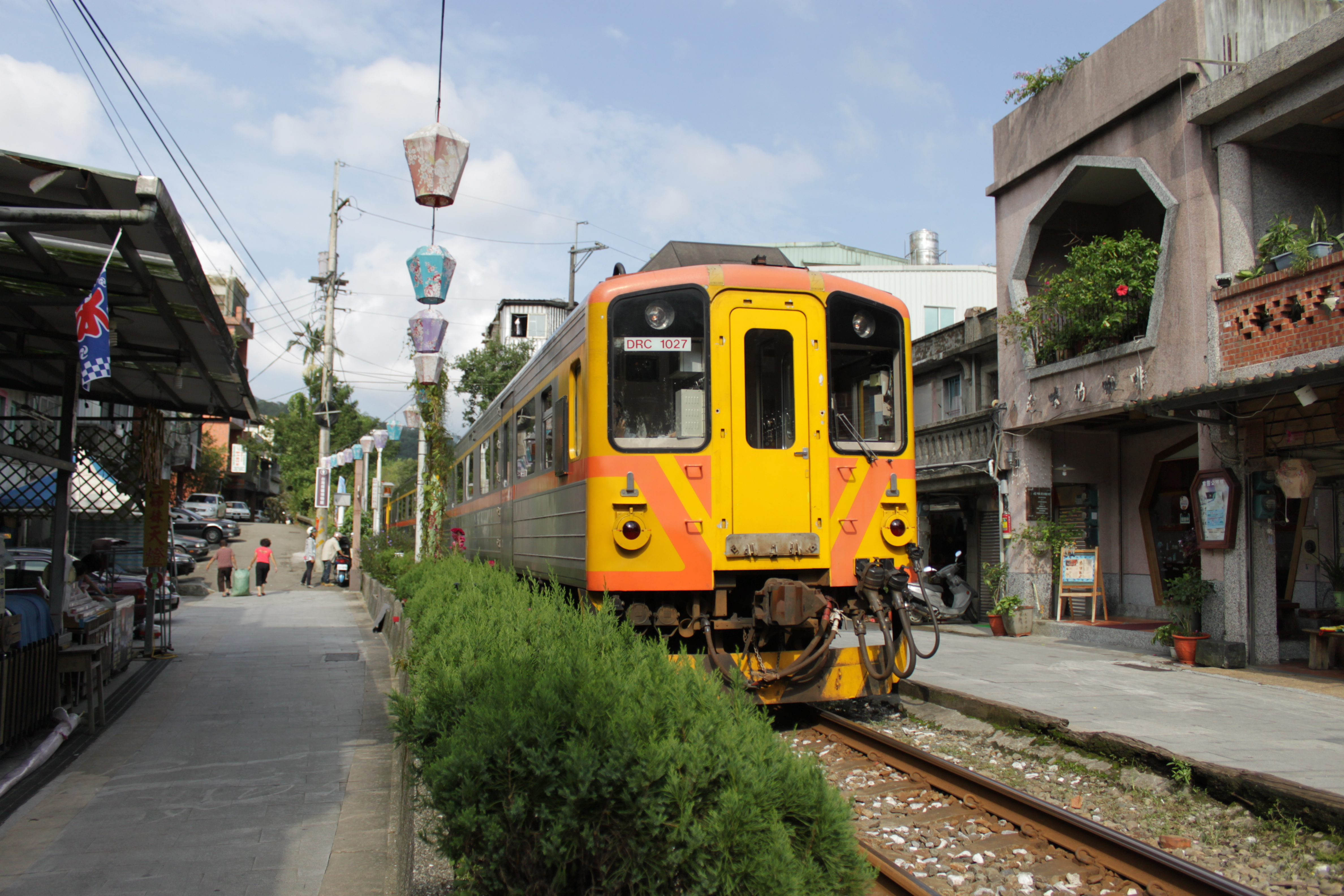 A DR1000 train is passing Shifen Old Street.中文（台灣）: DR1000列車駛經十分老街。